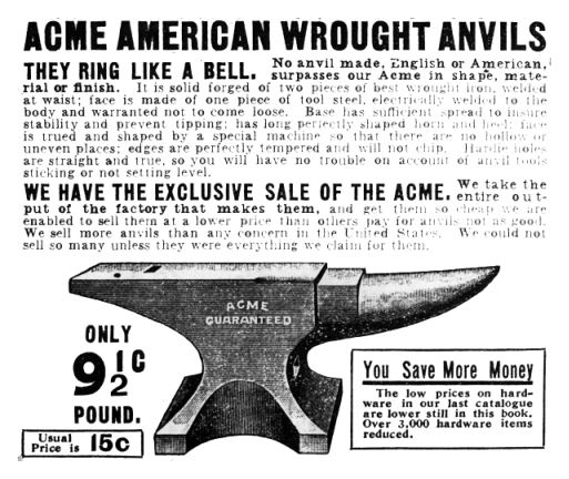 An ad for an Acme anvil